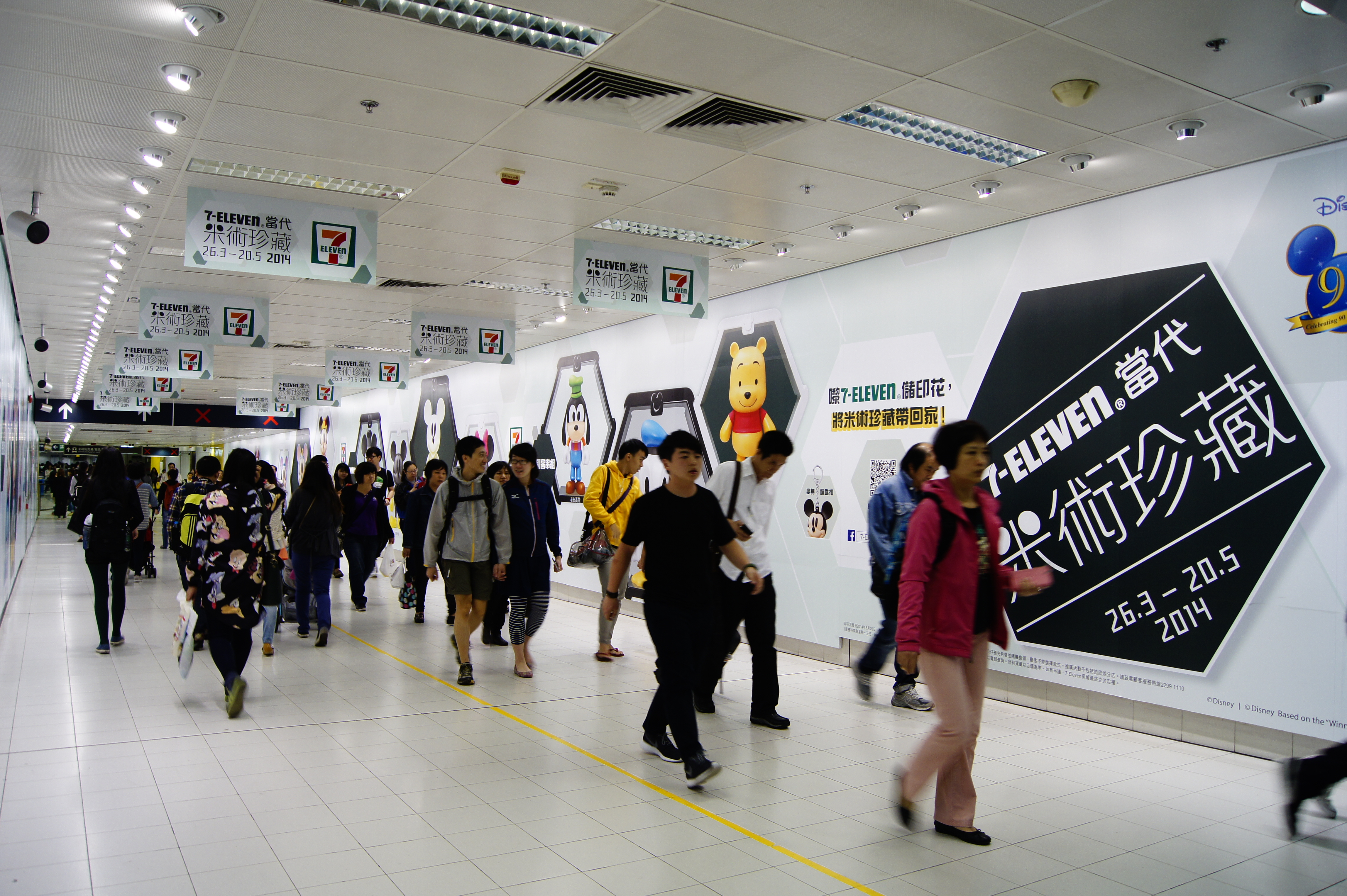 MTR Kowloon Tong Station interchange passageway